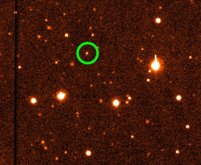 90482 Orcus. The location of Orcus is shown in the green circle (top, left). Courtesy of NASA